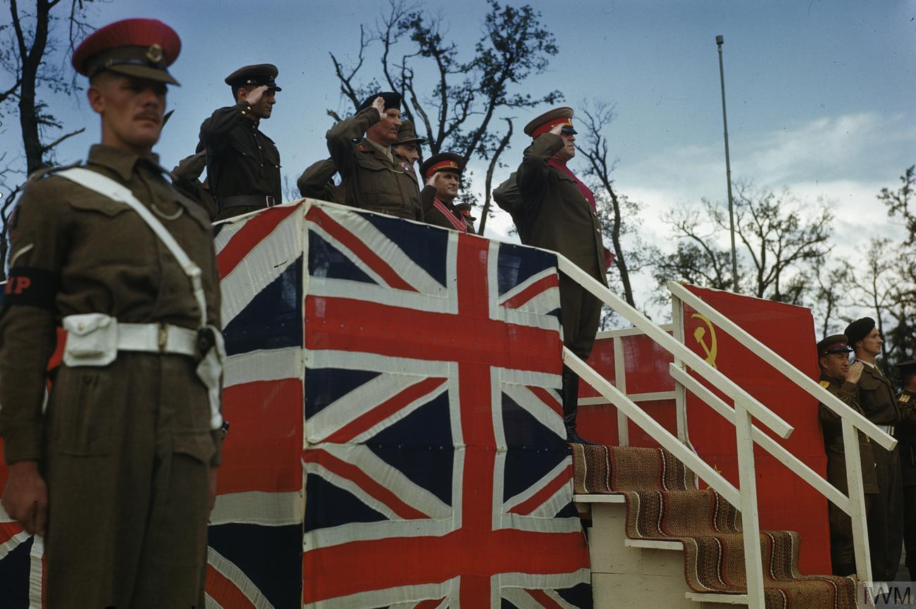 Field Marshal Montgomery Decorates Russian Generals at the Brandenburg Gate in Berlin, Germany, 12 July 1945 The Deputy Supreme Commander in Chief of the Red Army, Marshal G Zhukov and the Commander of the 21st Army Group, Field Marshal Sir Bernard Montgomery on the saluting base during a march past of the 7th Armoured Division at the Brandenburg Gate. Before the march past Field Marshal Montgomery had invested Marshal Zhukov as a Knight Grand Cross of the Order of the Bath and bestowed other decorations on General K Rokossovsky and Marshal V Sokolovsky of the Red Army.